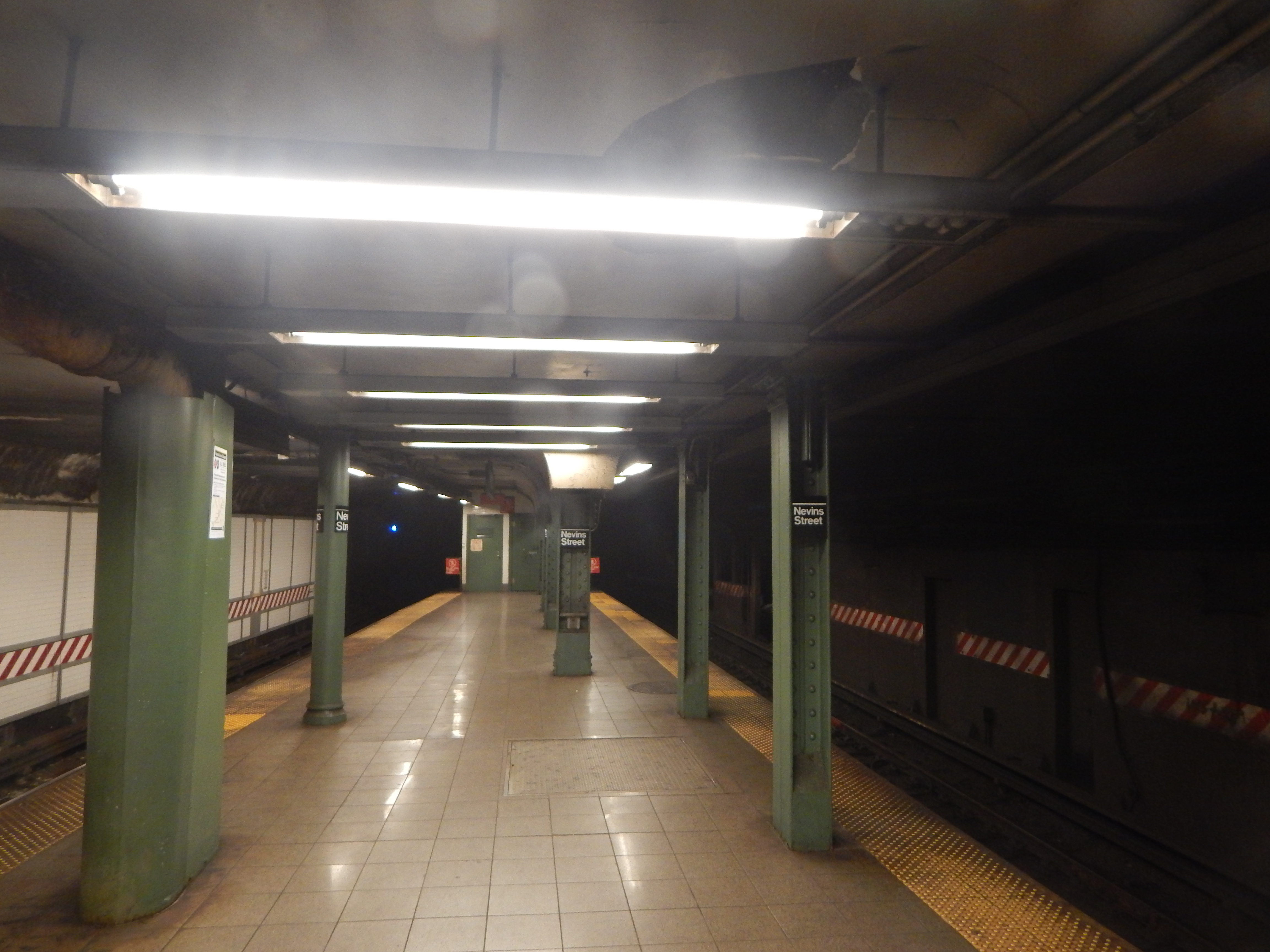 Downtown Brooklyn, New York